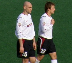 FC Moscow players Mariusz Jop (25) & Oleg Kuzmin (22)